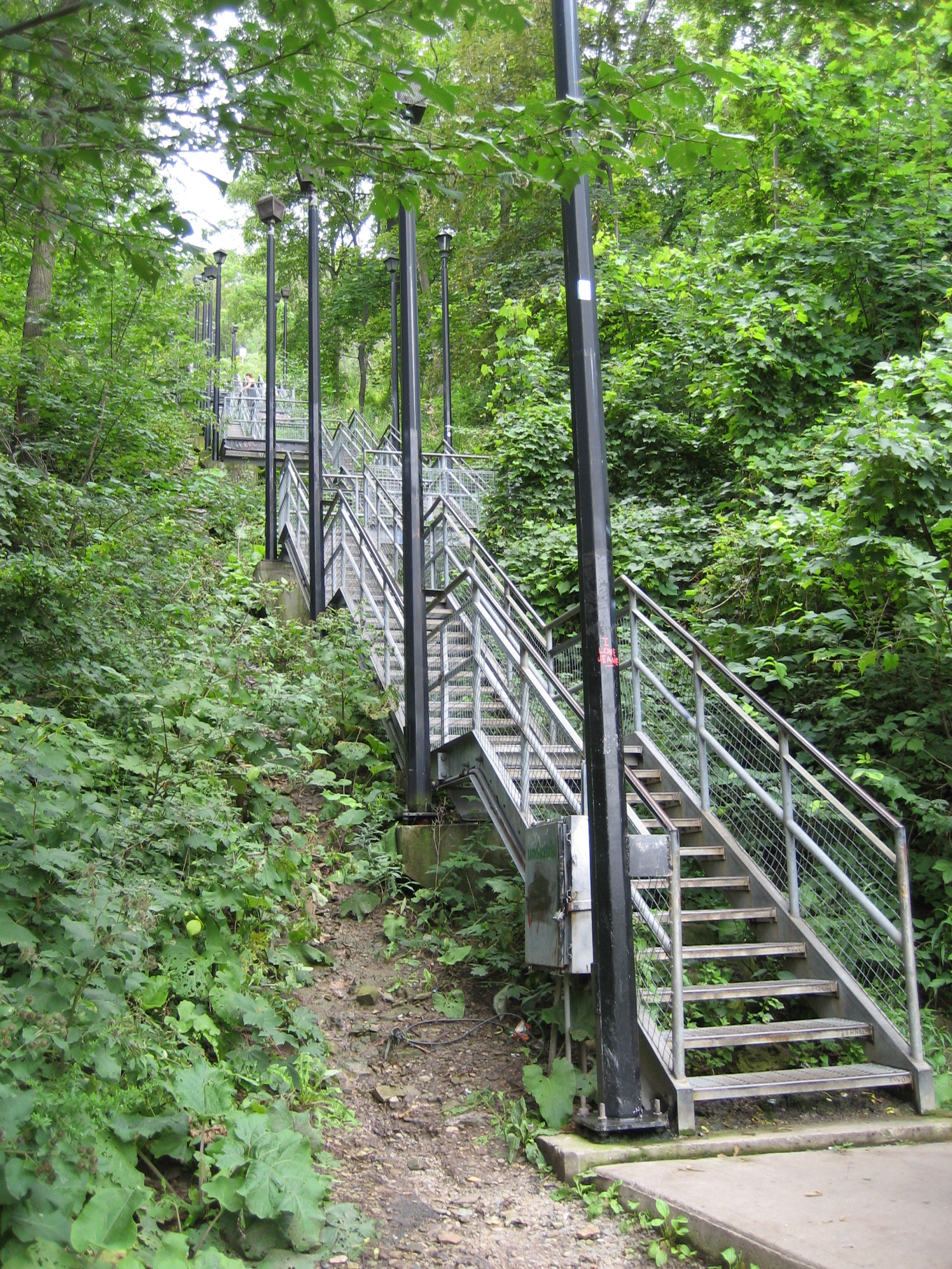 Wentworth Street mountain-access stairway, Hamilton, Canada.